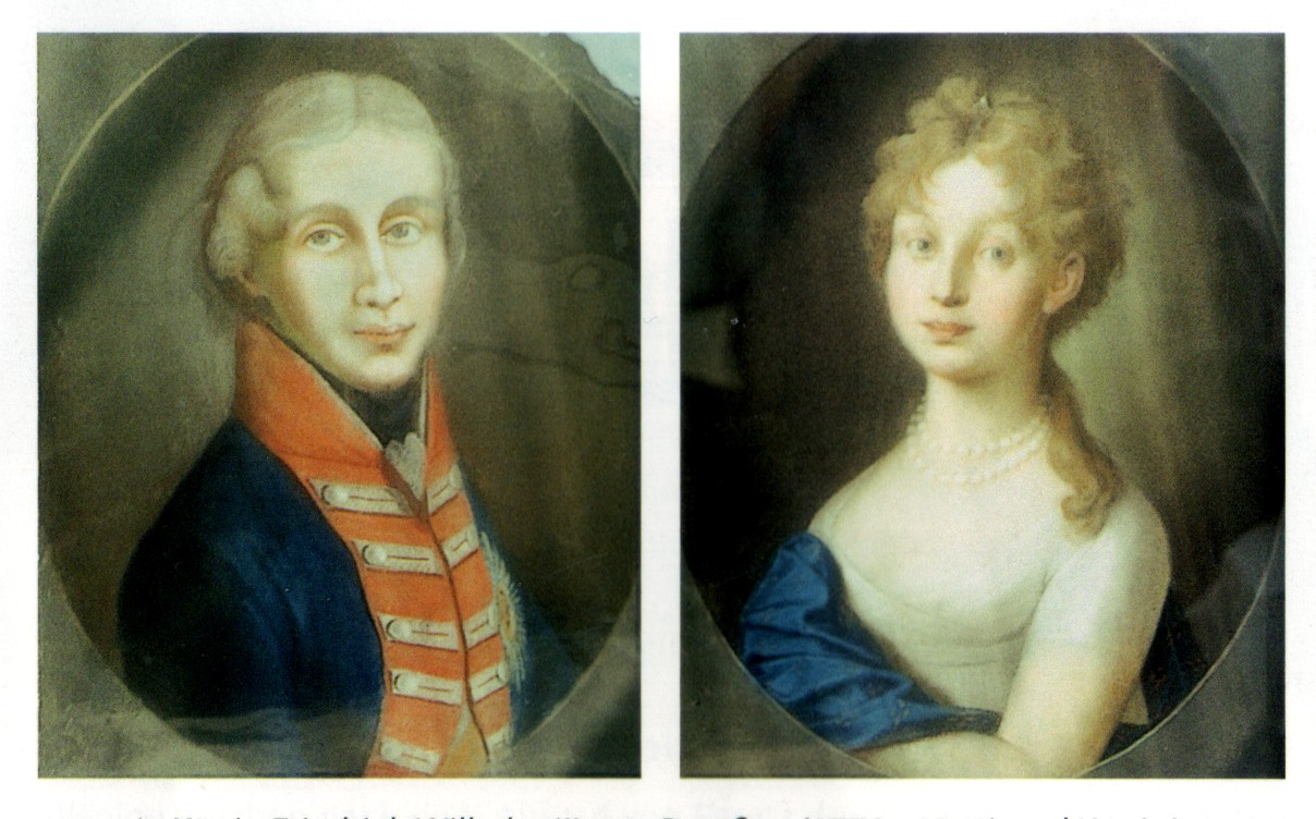 King Friedrich Wilhelm III. of Prussia and Queen Luise of Prussia.